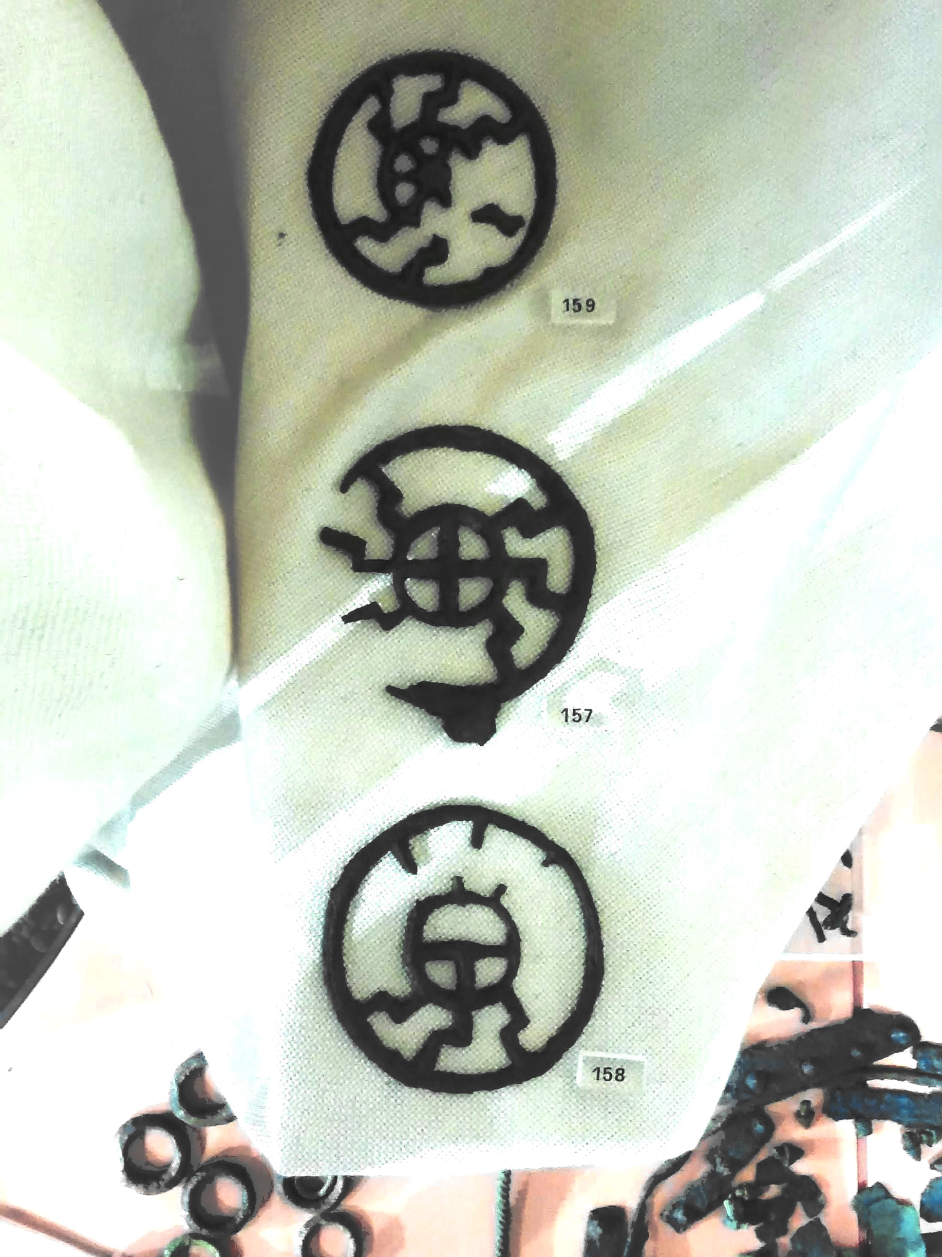 Decorative elements (Zierscheiben) of a female belt in the 47 tomb, necropolis of Lippi, Verucchio, Villanovian culture, VIII-VII b.C.